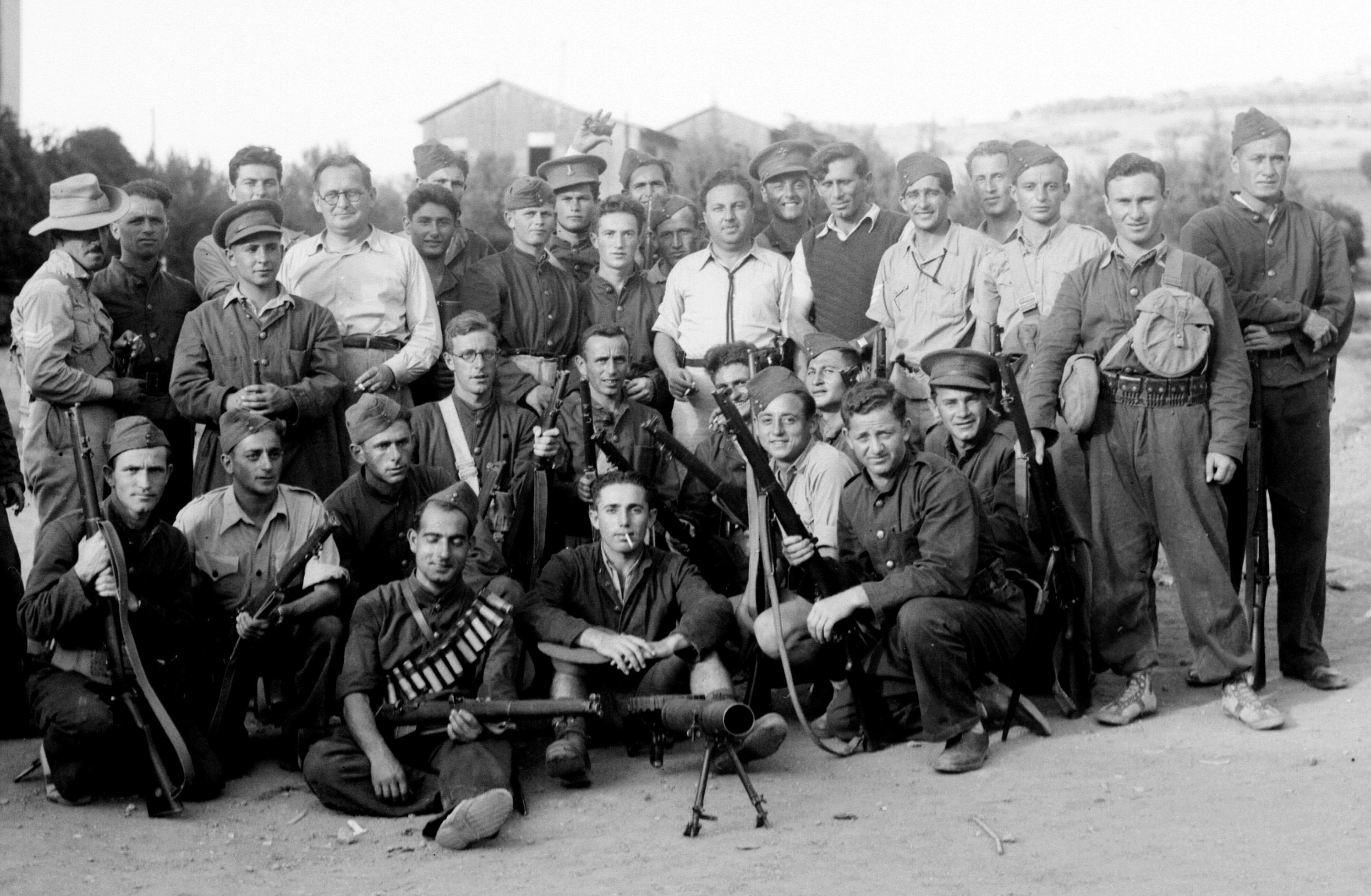 Members of the Special Night Squads, formed under the command of capt. Charles Orde Wingate, consisitng of 75 "Hagana" members.